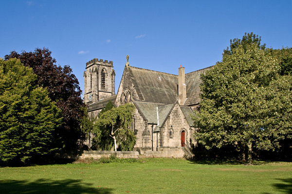 Christ Church parish church, Harrogate, North Yorkshire, seen from the southeast